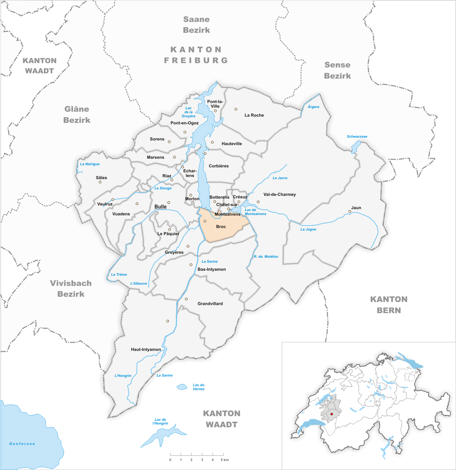 Municipality Broc